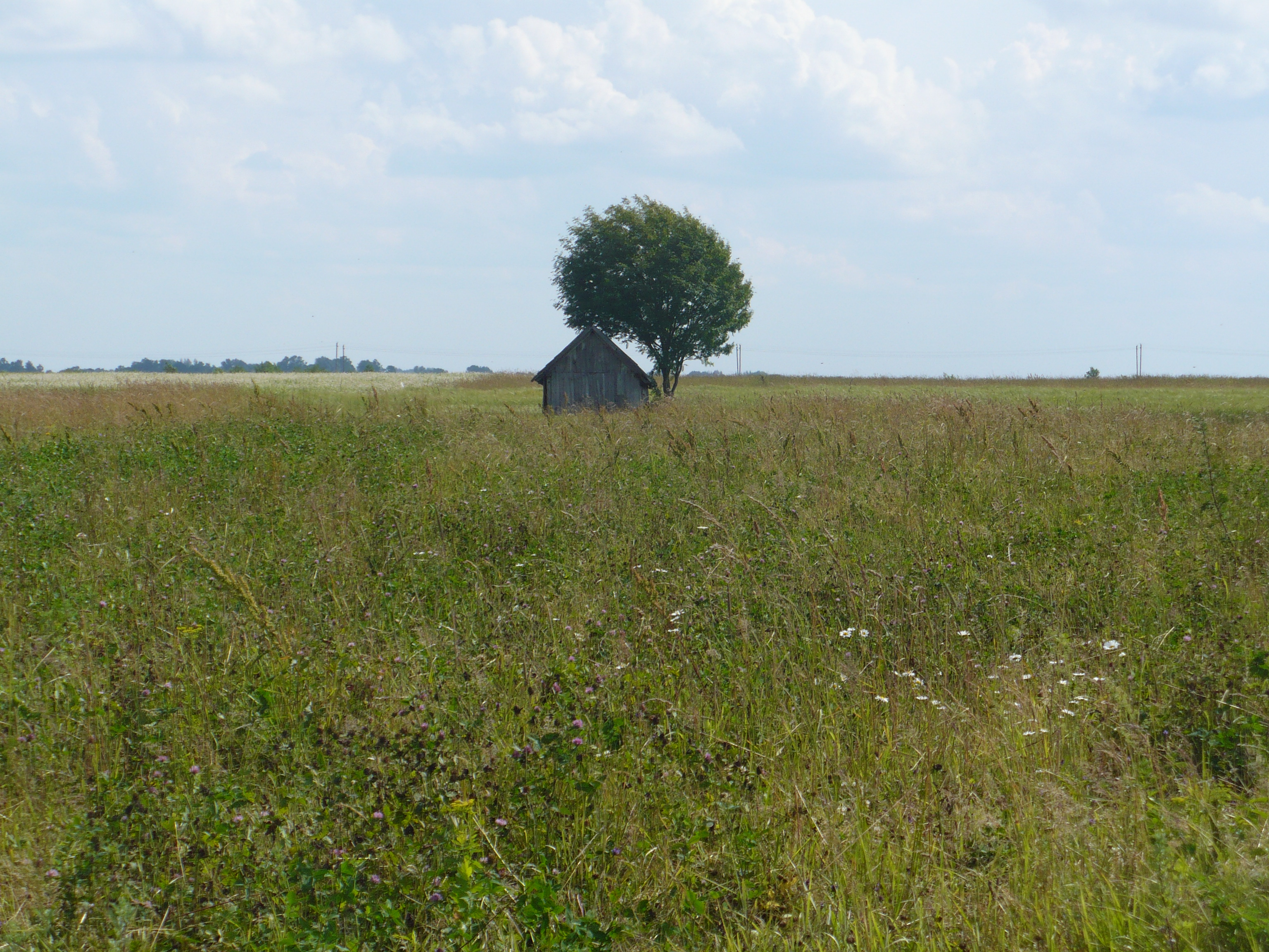 Landscape, Lithuania, near Mēmele river. July, 2008